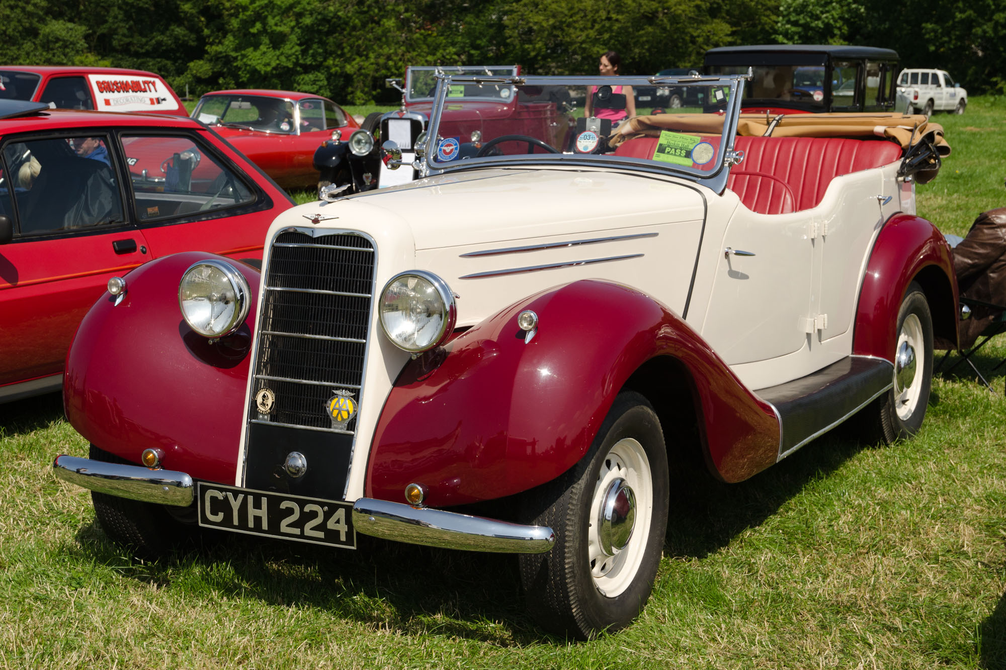 1936 Hillman Hawk Sports Tourer by Martin Walter (DVLA) manf 1936, 3181cc Heskin Hall Steam Fair 2014